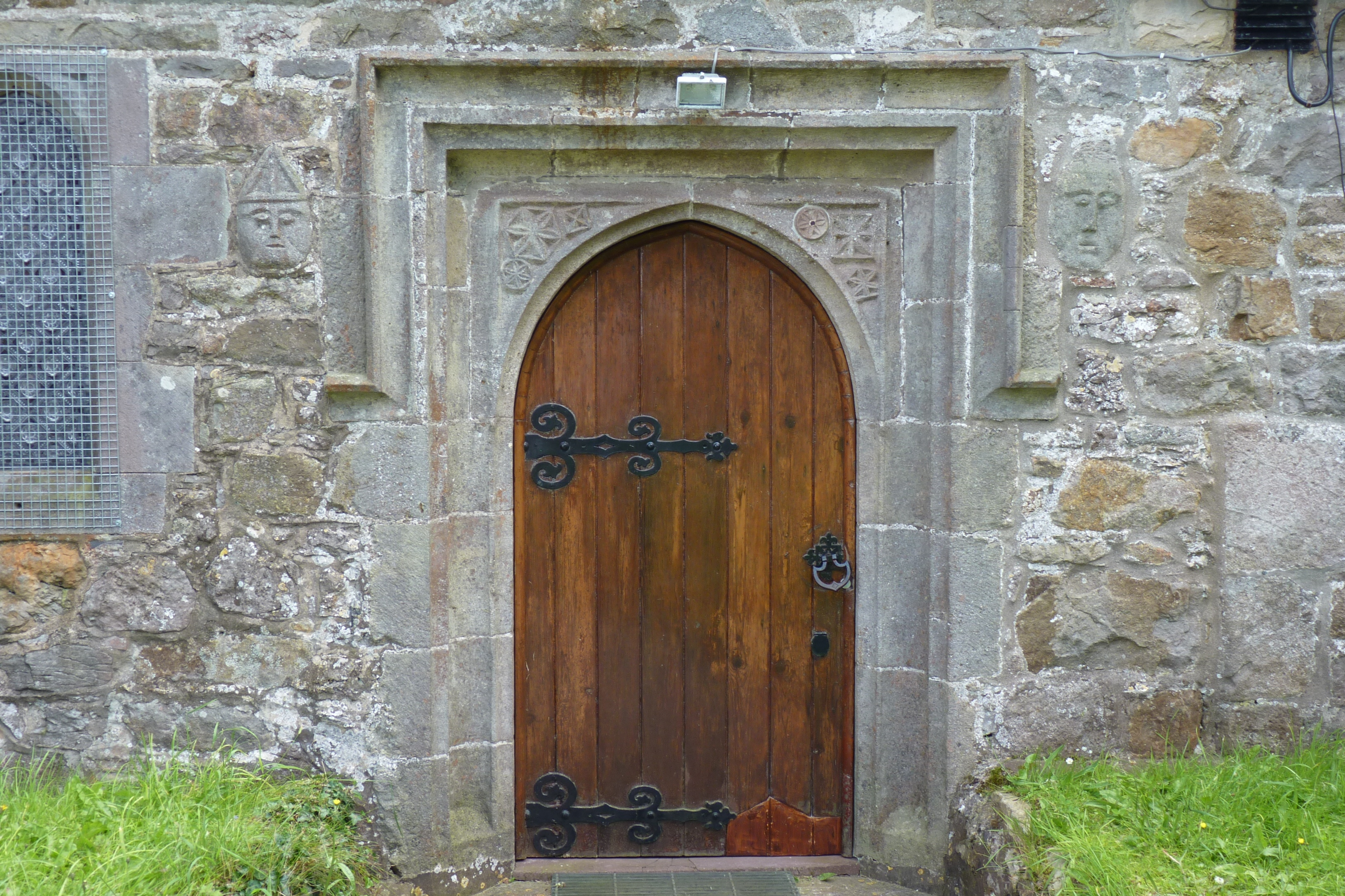 Church of St Peter, Llanbedrgoch